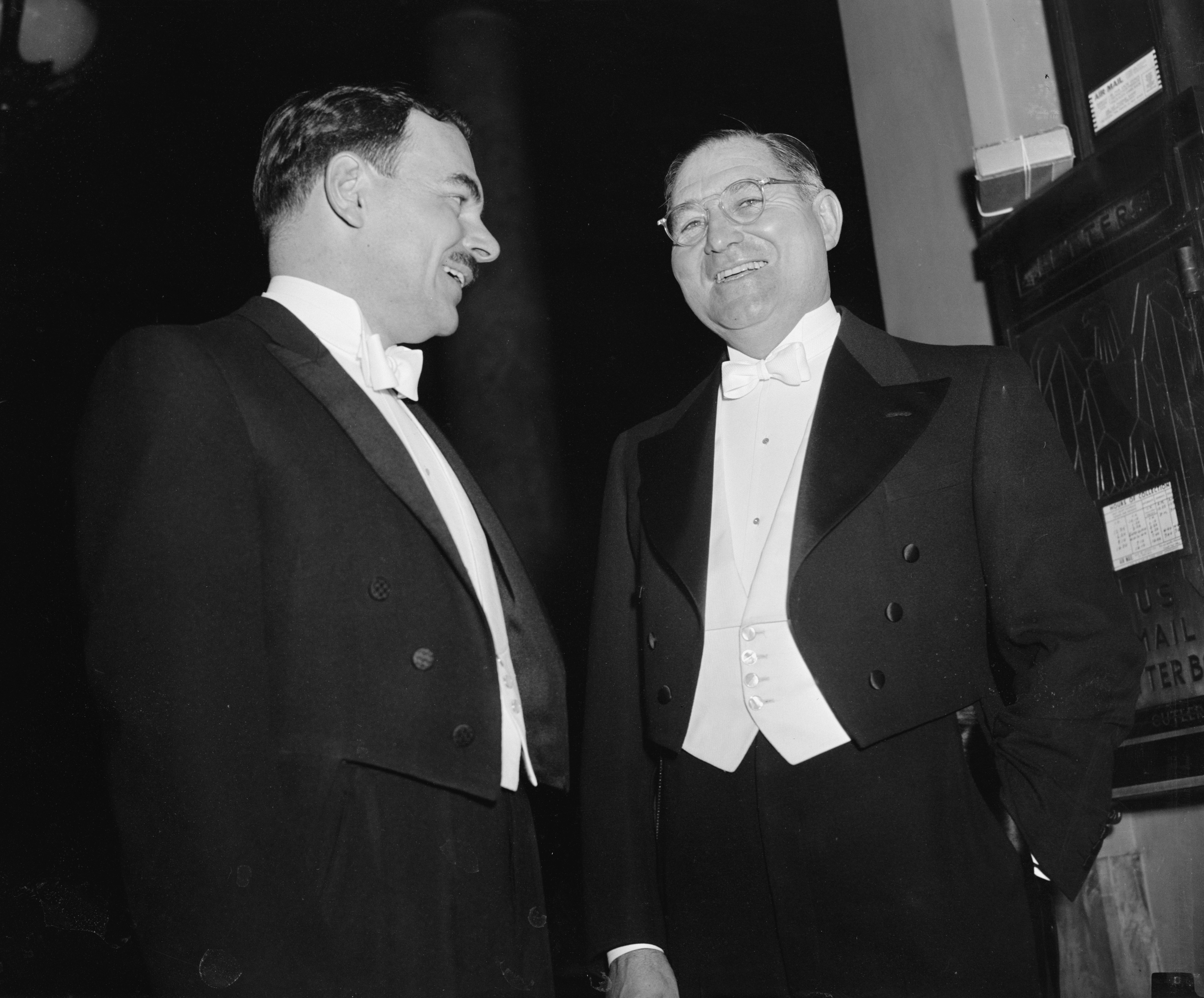 Annual Gridiron dinner. Washington, D.C., Dec. 9. Presidential timber, Thomas E. Dewey and his Campaign Manager, Russell Sprague, as they attended the annual Gridiron dinner in honor of the President